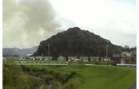 Susa Jinjya tennou-ike